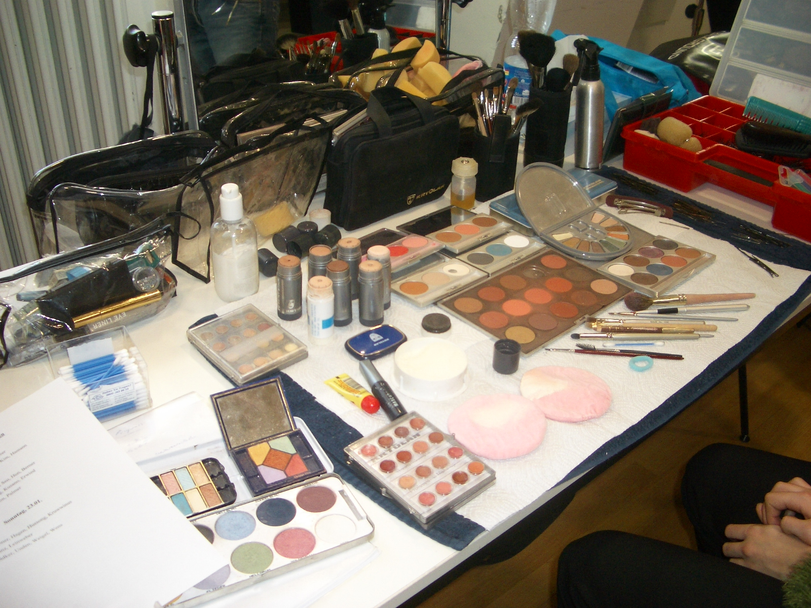 This picture shows a table covered with tools for a theatre makeup artist.